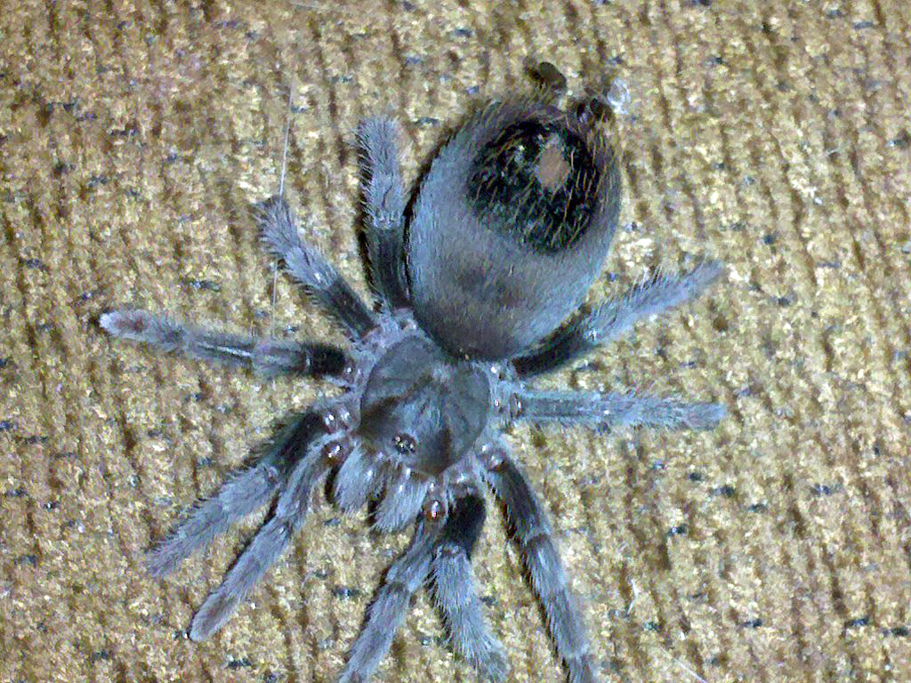 Aphonopelma marxi